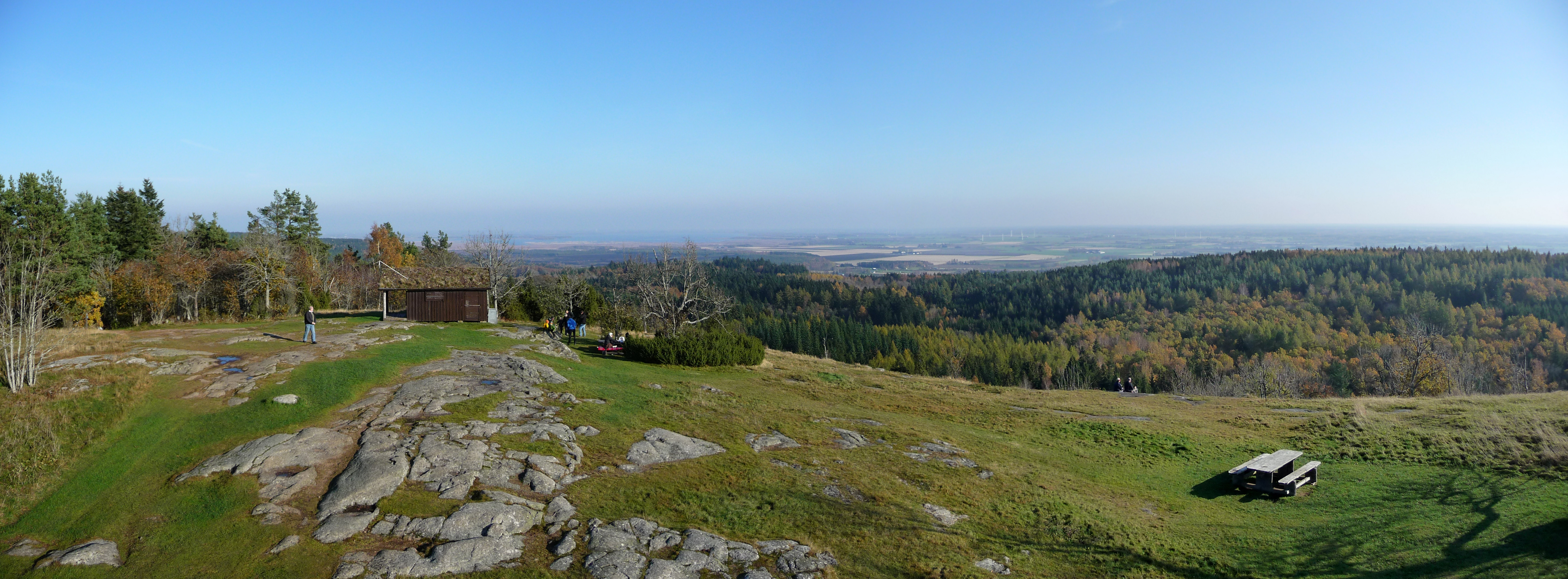 A panorama taken from the top of Omberg in Östergötland, Sweden.